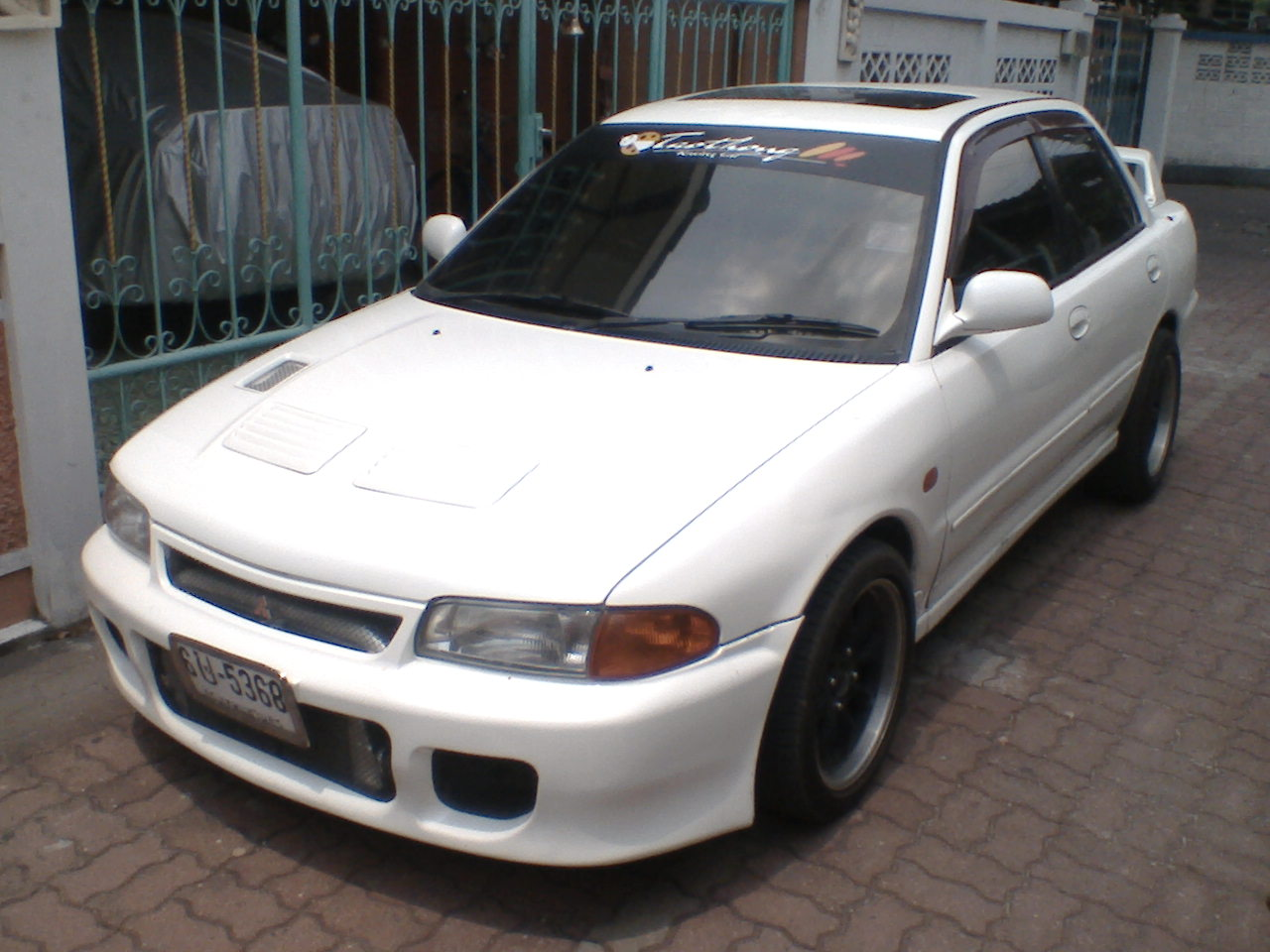 Mitsubishi Lancer Evolution II (CE9A) in Thailand.